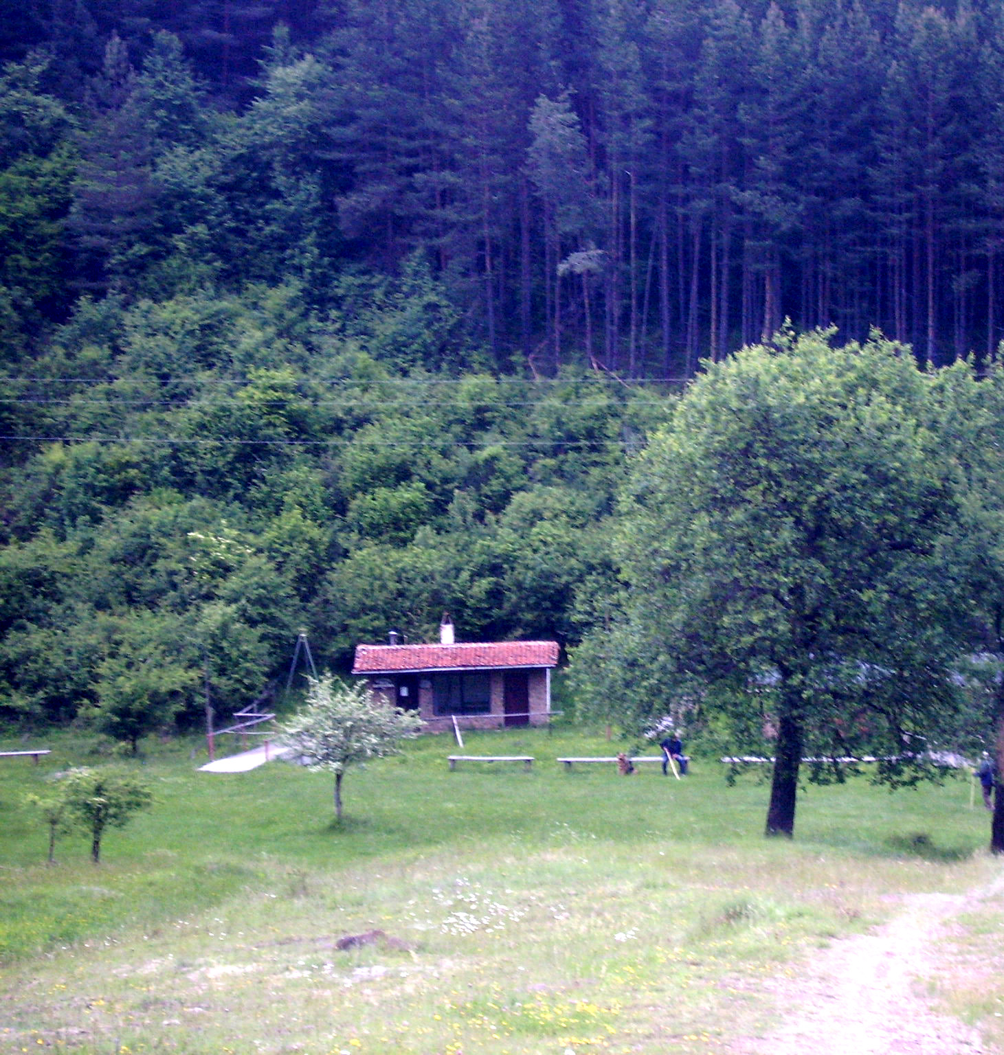 Chapel "Virgin Mary", village Gorochevtsi, Bulgaria